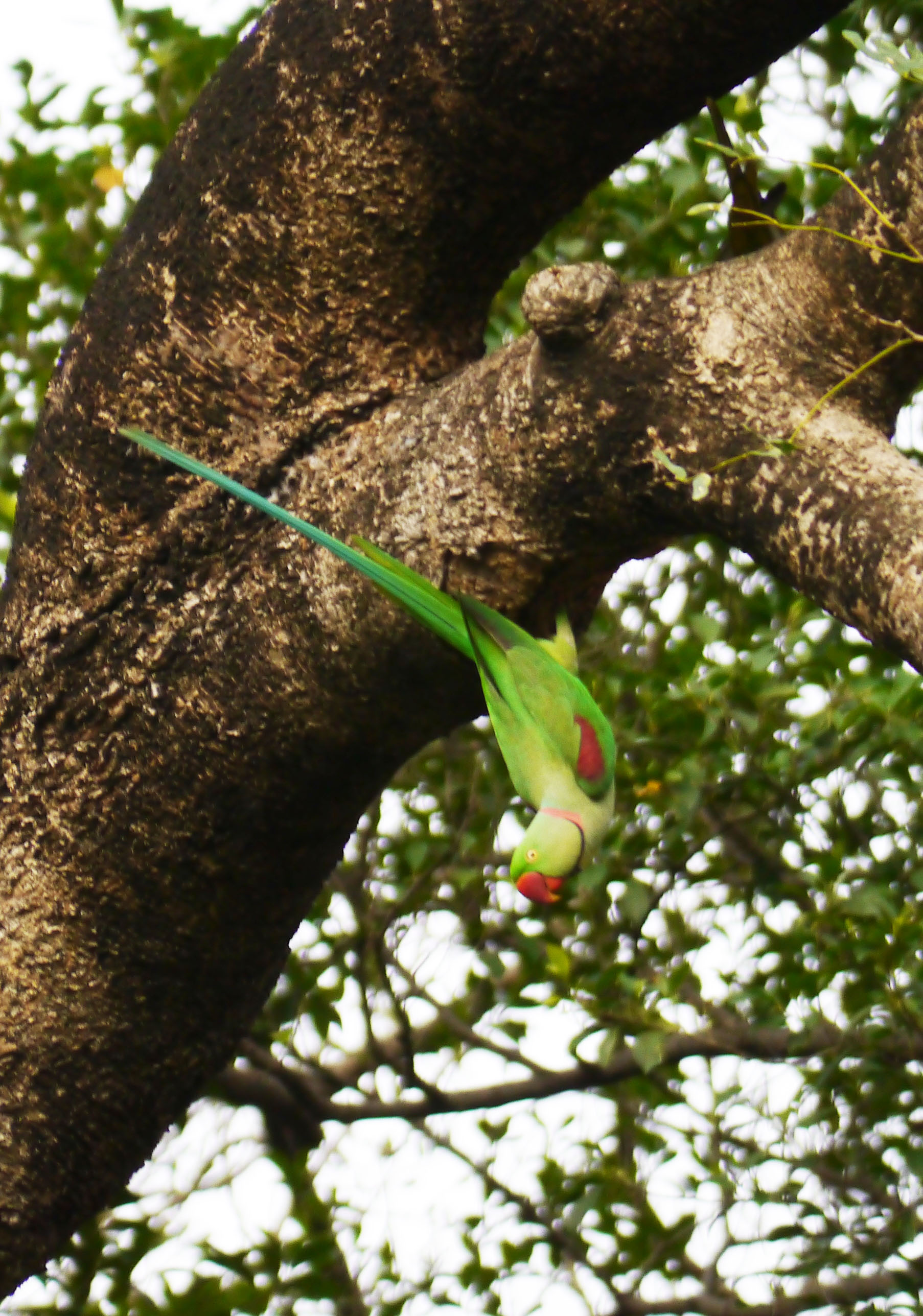 Alexandrine Parakeet. Kowloon Park, Hong Kong.